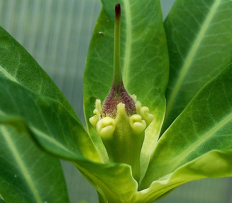 Euphorbia antso